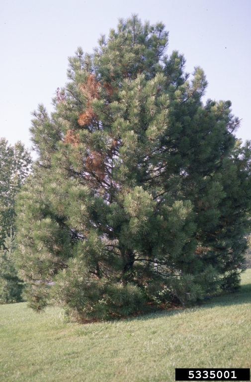 Pycnidia on pine needle